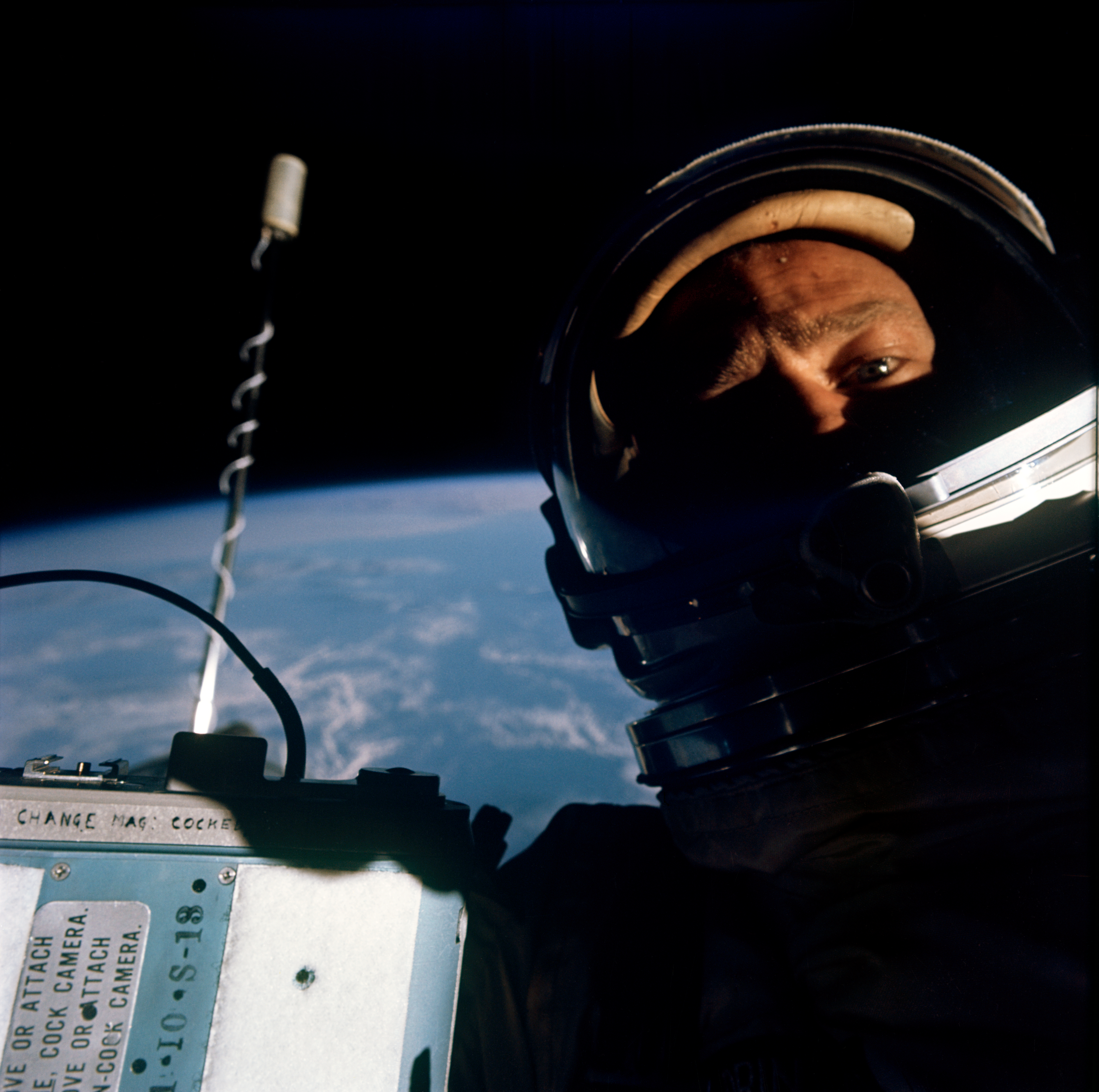 Astronaut Buzz Aldrin, pilot of the Gemini 12 spacecraft, is seen in a self-photograph during extra-vehicular activity in 1966. James Lovell was the command pilot for this mission.